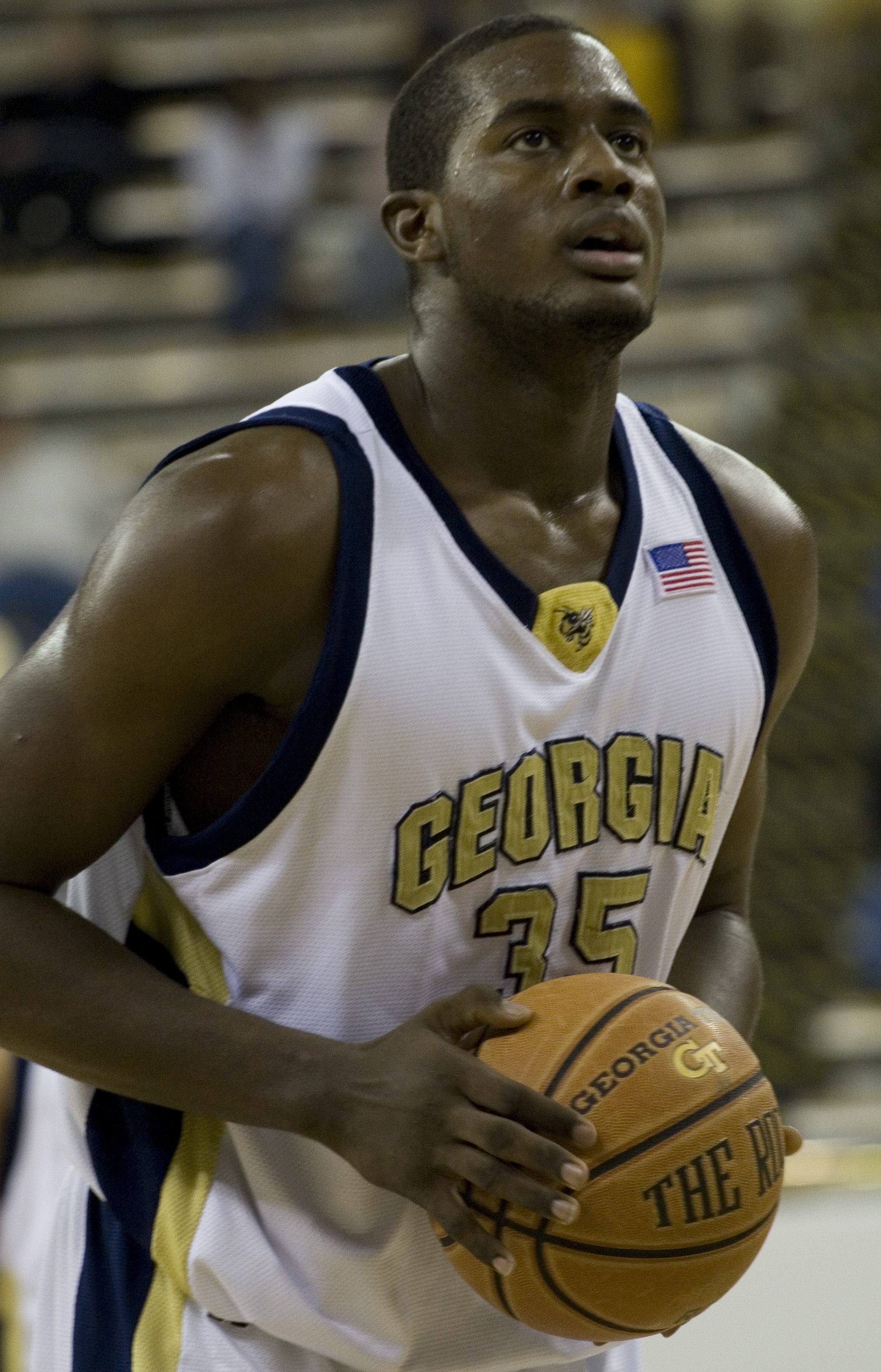 Description: Zach Peacock of the 2006-07 Georgia Tech Yellow Jackets men's basketball team. Source: [1] on flickr Author: Brooke Novak